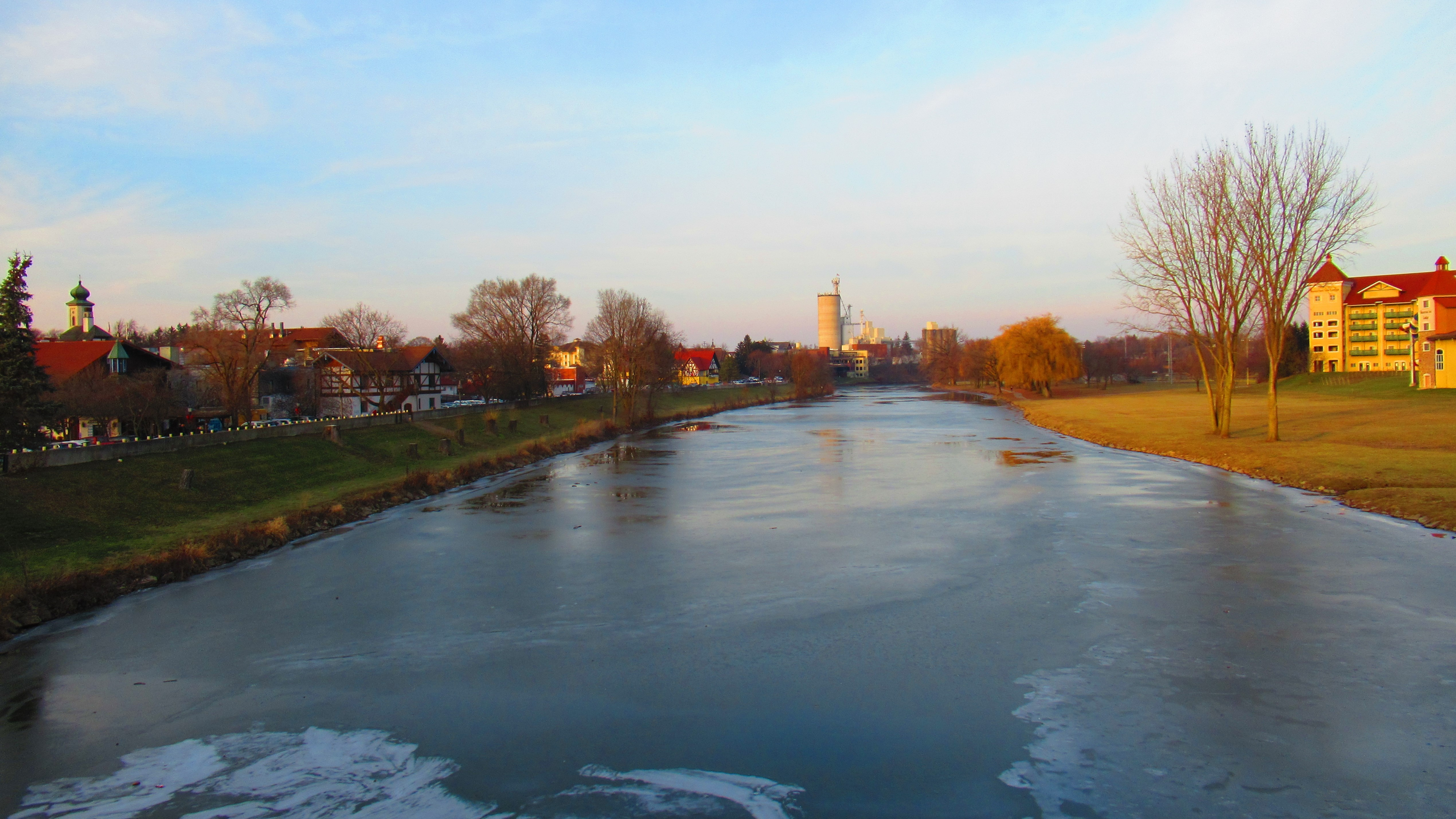 Cass River (Frankenmuth)